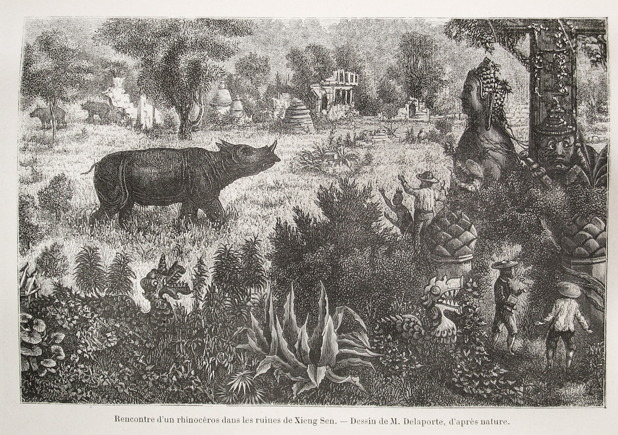 Voyage d'exploration en Indo-Chine - (1885, Francis Garmier)